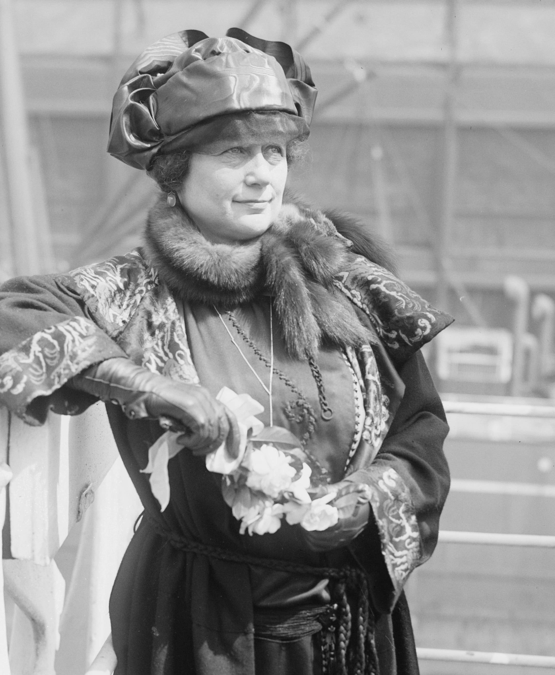 Title: Fremstad Abstract/medium: 1 negative : glass ; 5 x 7 in. or smaller.